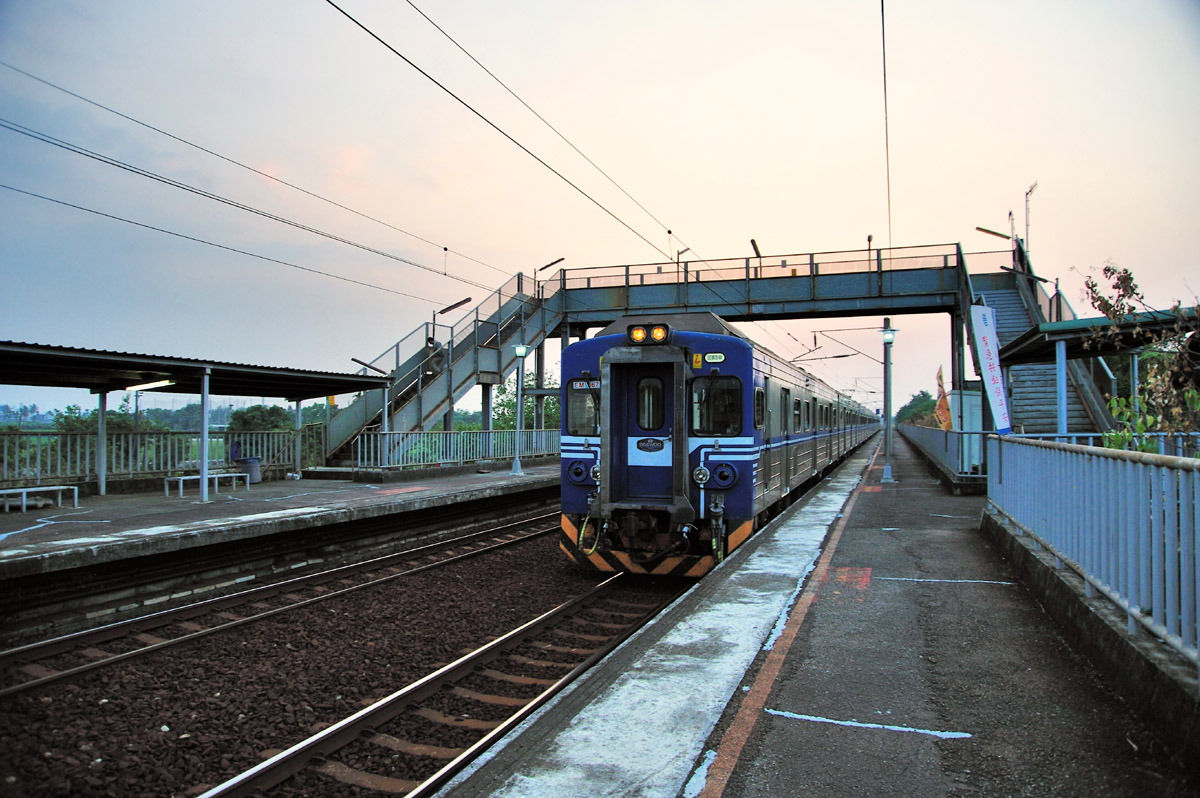 LiouKuaiCuo Station is a unmanned station of TRA PingTung rail line. This photo shows a EMU500 local train stops in the station.